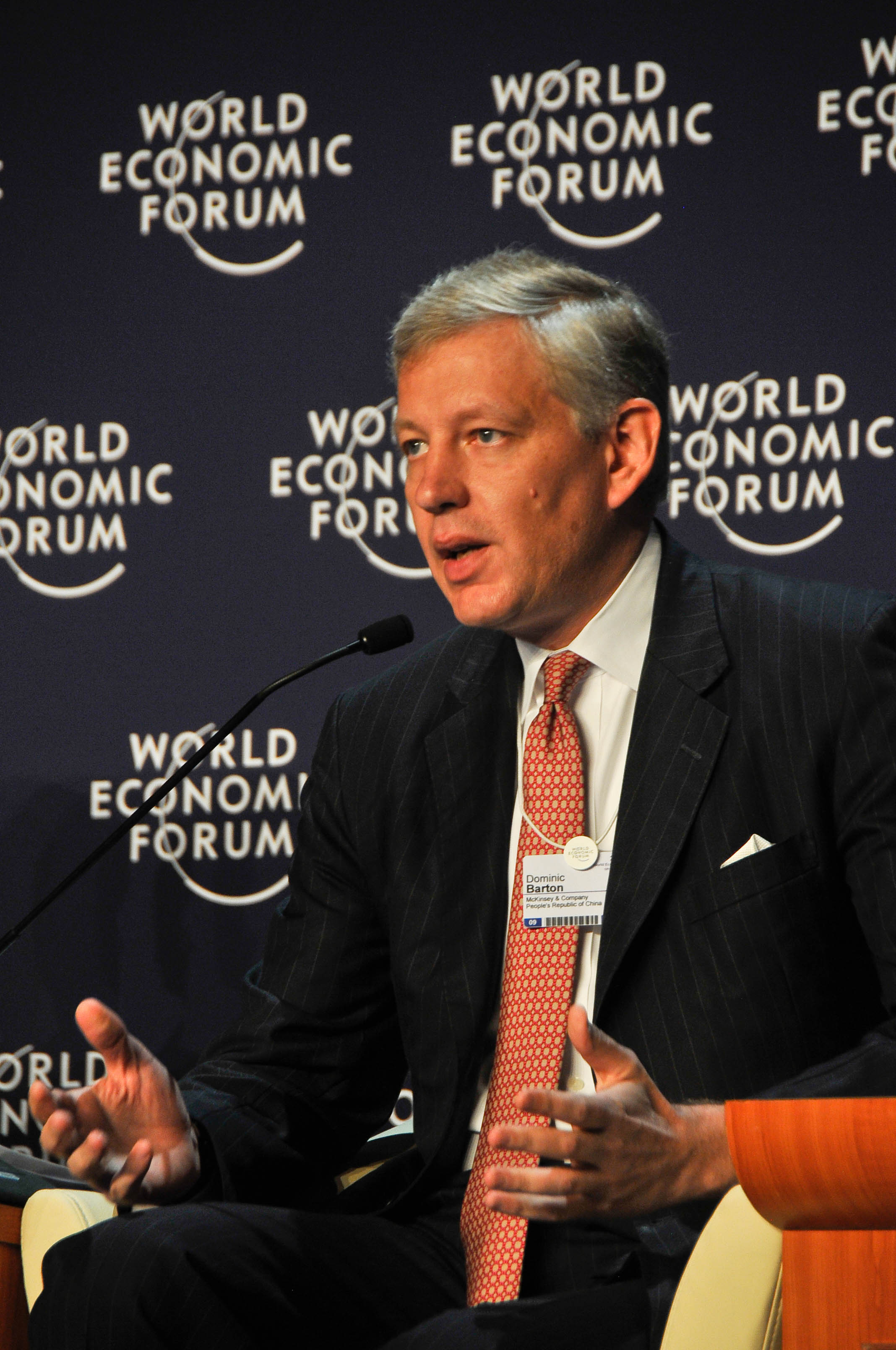 Dominic Barton, Director, McKinsey & Company, People's Republic of China - captured during the World Economic Forum on East Asia in Seoul, South Korea, June 19, 2009. Copyright World Economic Forum ( by Oh Jaehyuk